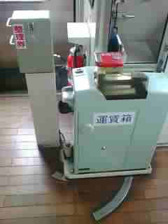 Fare box in Japan